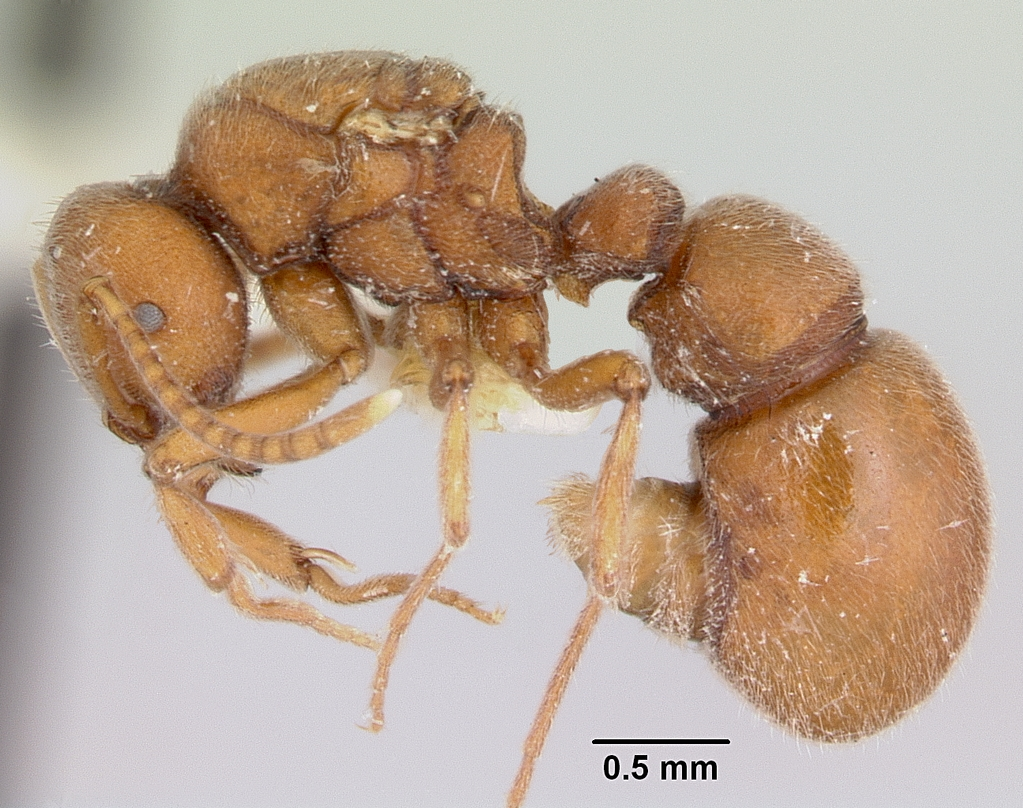 Profile view of ant Proceratium compitale specimen casent0172585.